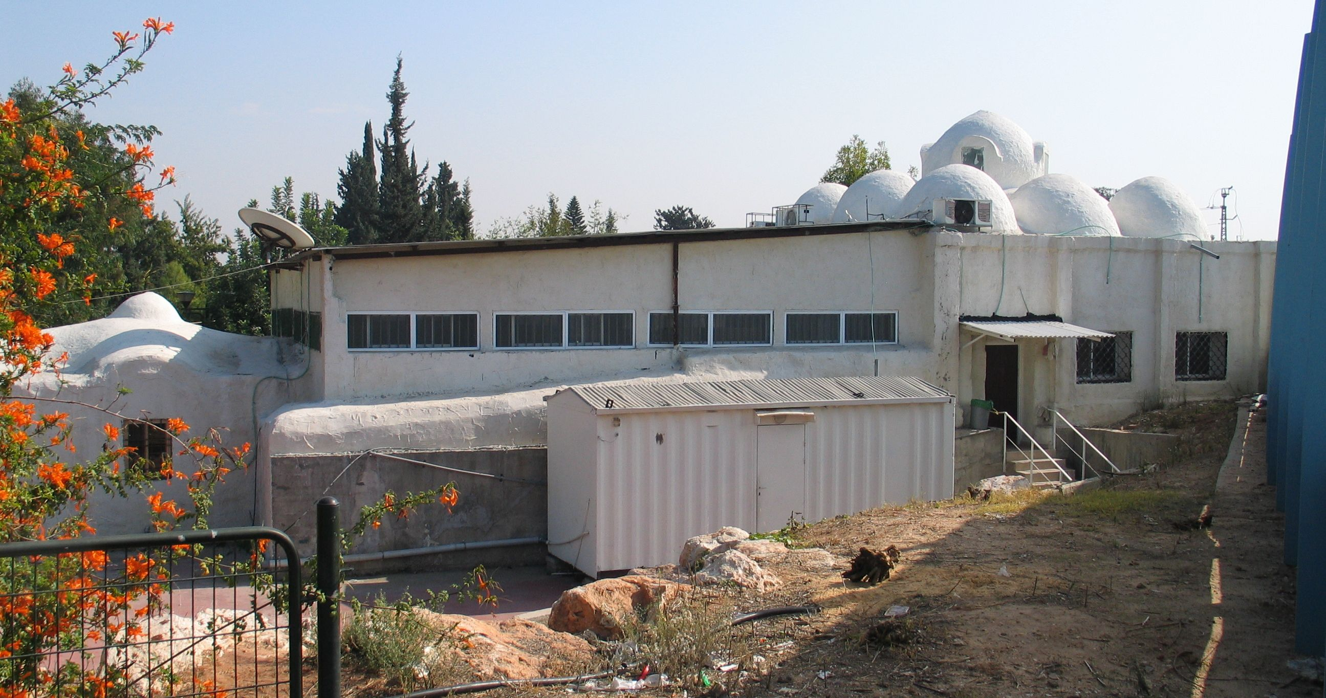 Shaarey Tsiyon synagogue in Azor, Israel.